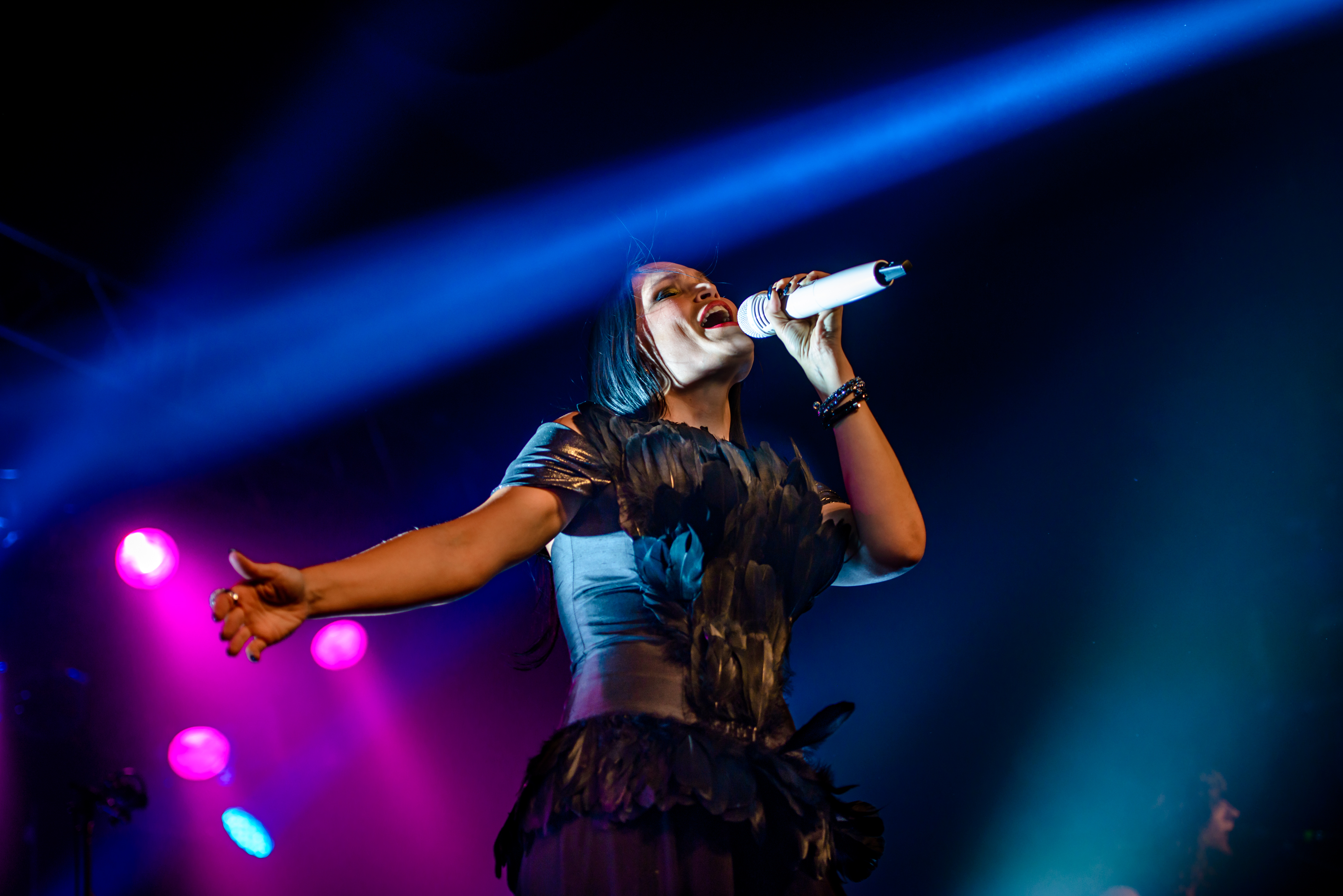 Tarja Turunen - The Shadow Shows Tour; Live Music Hall Köln 2016